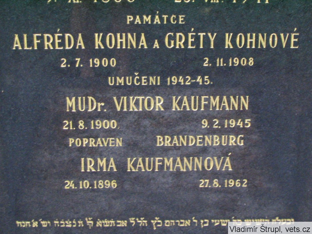 MUDr. Victor Kaufmann (1900 - 1945) doctor and leading figure of the illegal group Petitions Committee Faithful Forever (PVVZ) and the Central leadership of the resistance of domestic (ÚVOD) during the Protectorate (after 1938); cenotaph: New Jewish Cemetery in Prague Olšany.